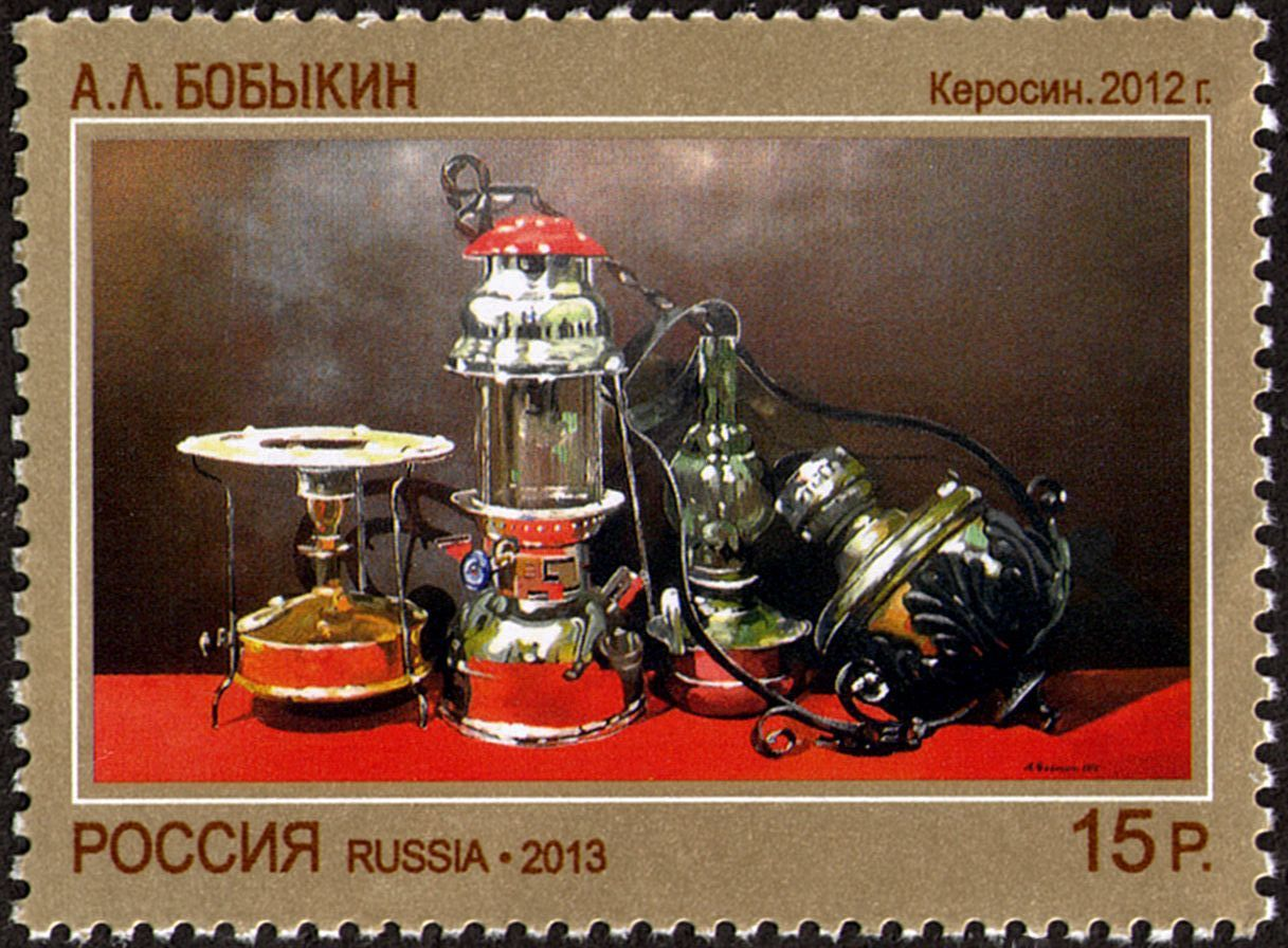 The contemporary art of Russia (the ongoing series, issue III).The Kerosene by Andrey Bobykin. 2012.Andrey Leonidovich Bobykin (born 1956) is a Russian artist, a Meritorious Artist of the Russian Federation, a full member of the Russian Academy of Arts, the Academician Secretary of the Design Department of the Russian Academy of Arts.The stamp of Russia, 15.00 Rubles, 25 October 2013, PTC Marka Catalogue No 1740, Michel No 1972. Coated paper, varnish coating, bronze paste. Offset printing. Perforation: comb 12×11½. Size of the stamp: 50×37 mm. Print run: 300,000.